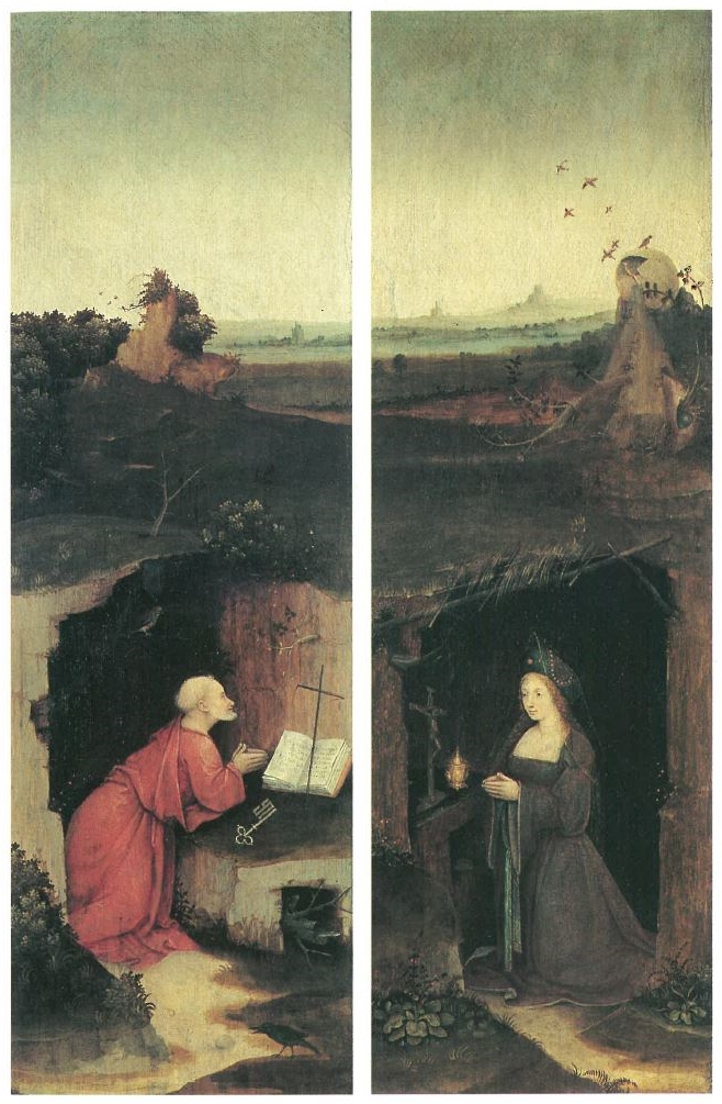 Painting in the Erasmus House of Anderlecht